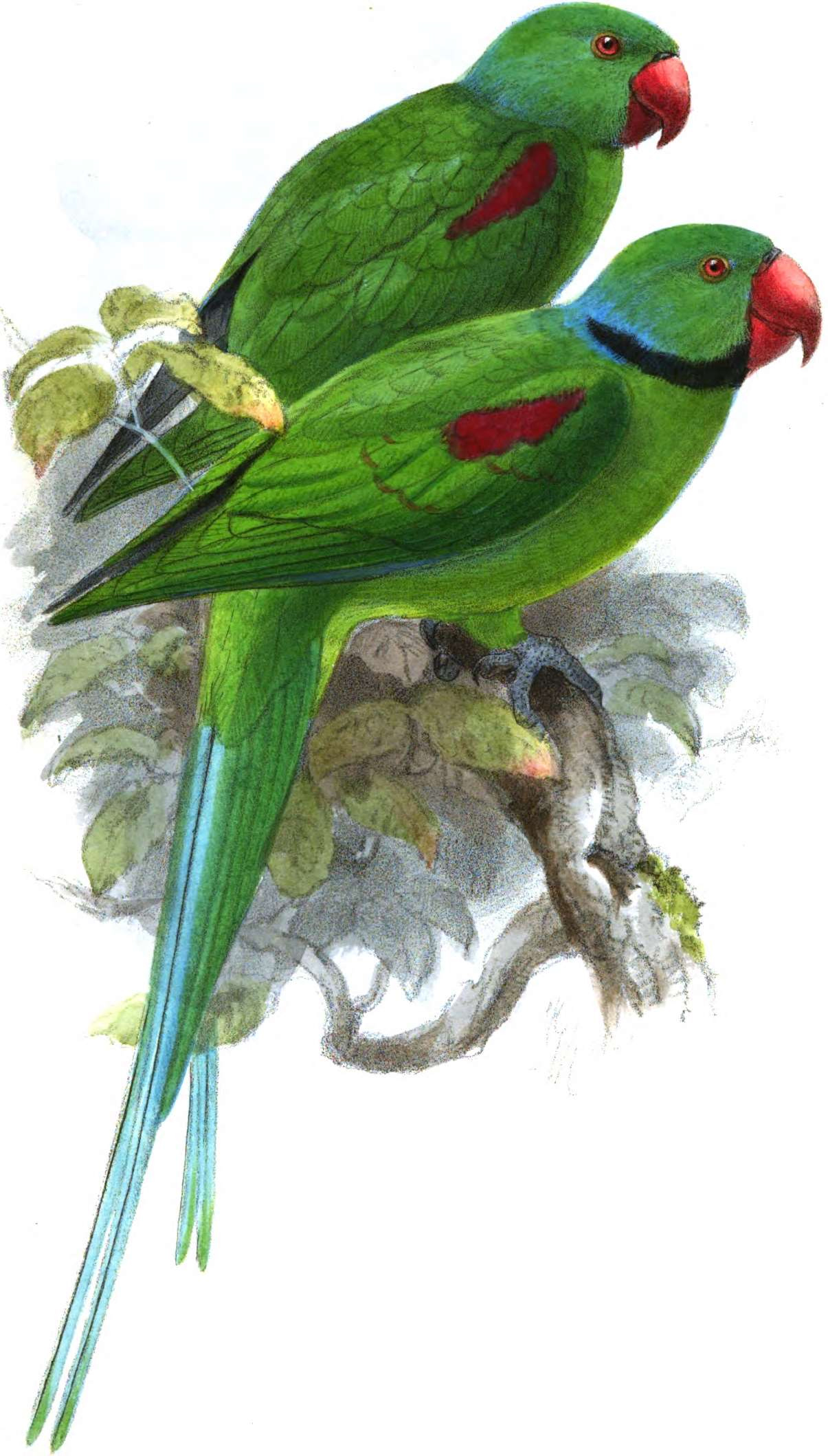 Male and female Seychelles parakeet (Psittacula wardi).